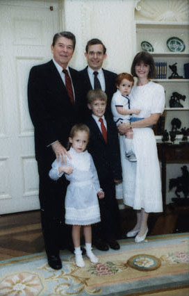 President Ronald Reagan and Jim Kuhn (1-2) Meeting with Jim Kuhn President Ronald Reagan and Helen Cameron (3-16) Farewell photo opportunity with Helen Cameron President Ronald Reagan, Roger Porter, and Mrs. Porter, (Not in all Photos) (17-33) Farewell photo opportunity with Roger Porter